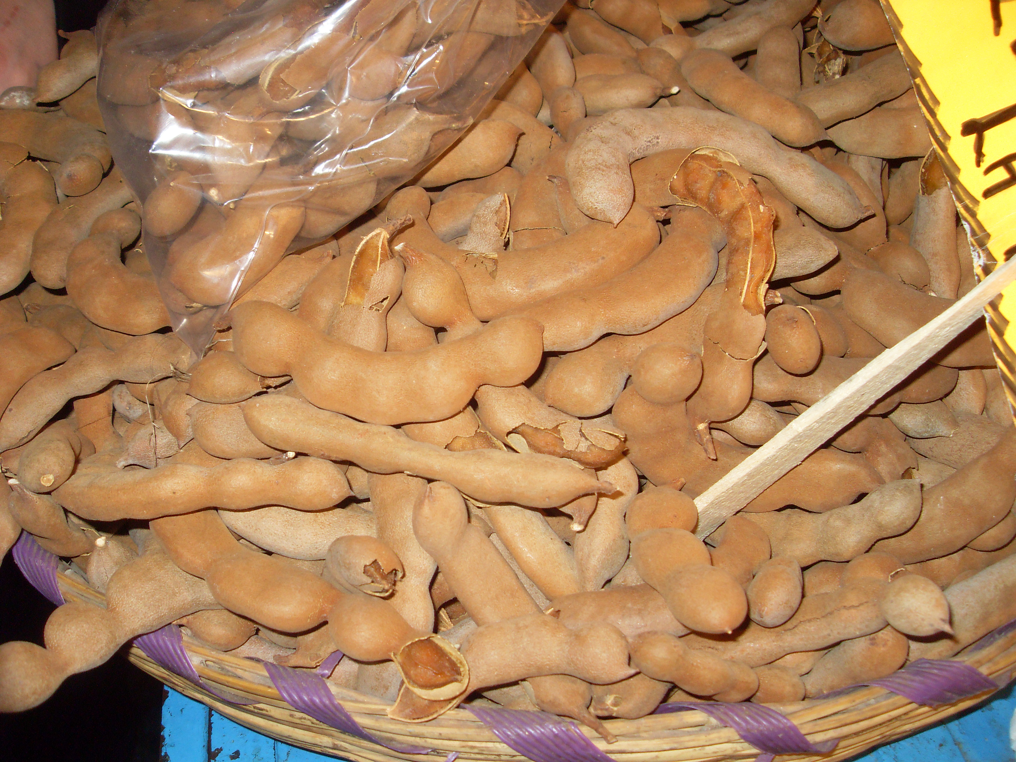 Tamarind pods at a market in Mexico